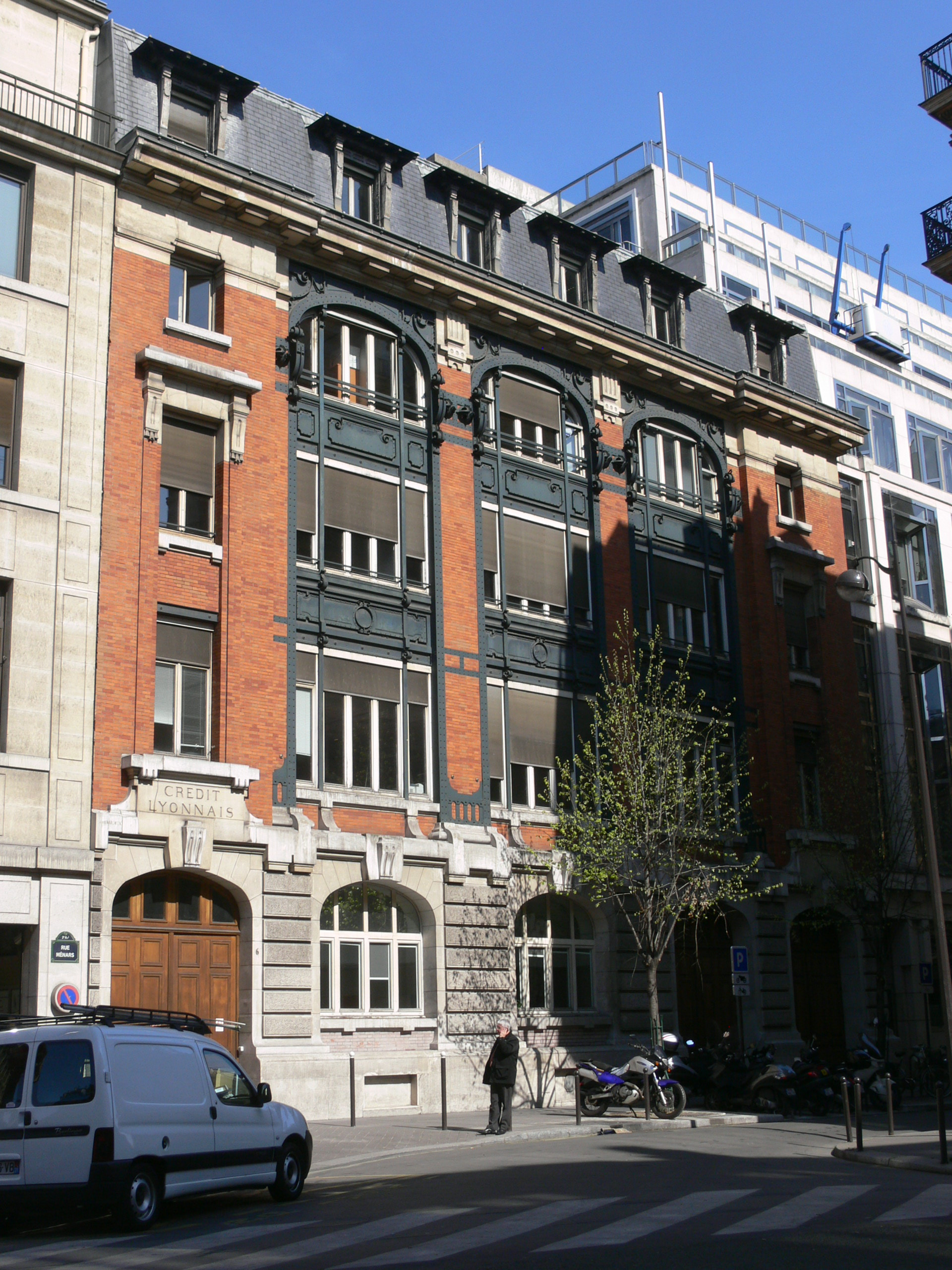 Annexe of the Crédit Lyonnais HQ ; 6 rue Ménars ; 2nd arrondissement, Paris